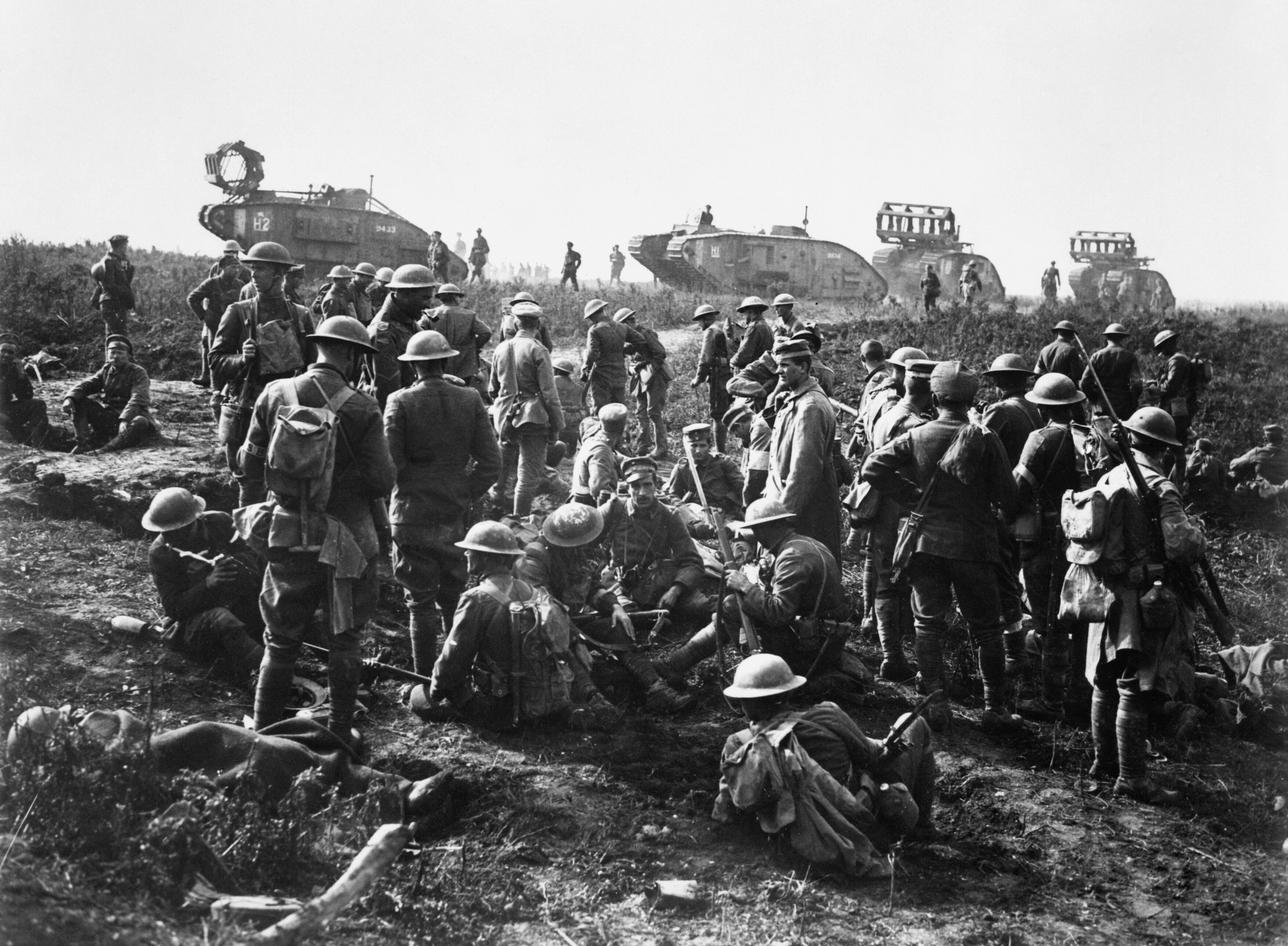 The Hundred Days Offensive, August-november 1918 Battle of the St Quentin Canal (Saint-Quentin). Men of the American 30th Infantry Division at rest with German prisoners following the capture of Bellicourt, 29th September 1918. In the background are British Mark V Tanks with 'cribs' of the 8th Battalion, Tank Corps, which were one of four battalions of the V Tank Brigade allotted to the 5th Australian Division and American Corps for the operation.